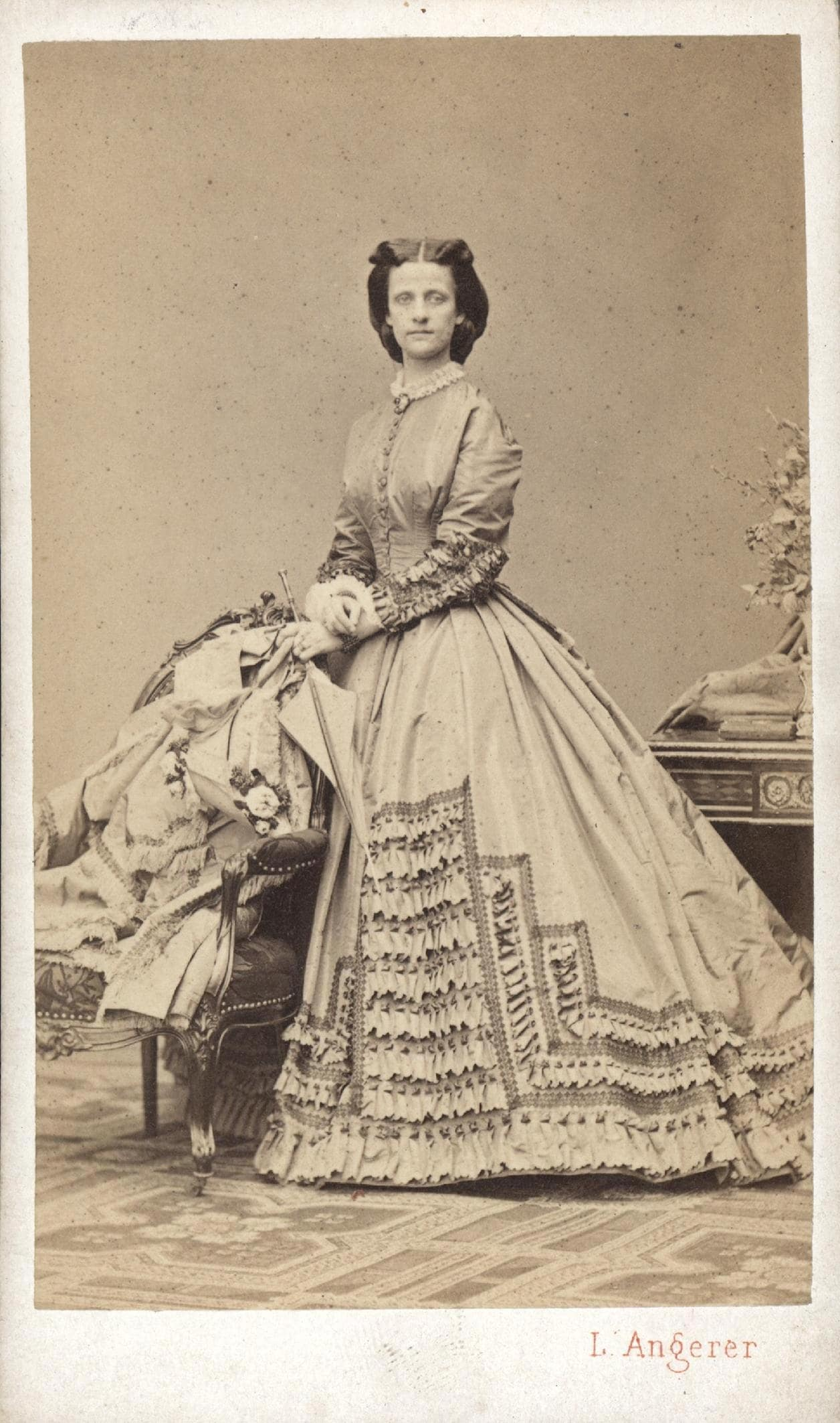 Princess Maria Annunziata of Bourbon-Two Sicilies.